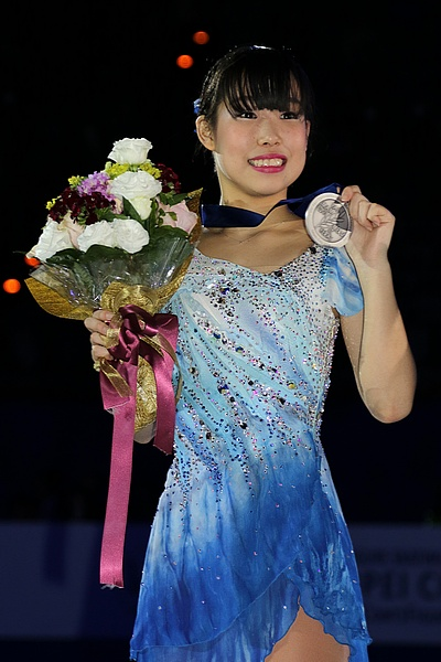 Photos – Four Continents Championships 2018 – Ladies (Medalists)